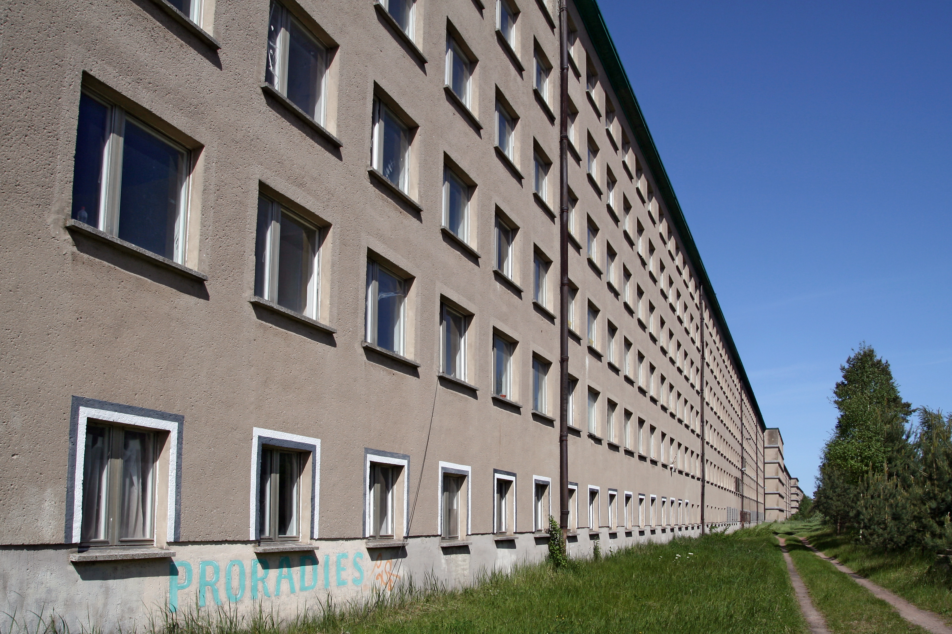 Prora, building complex, view from sea side